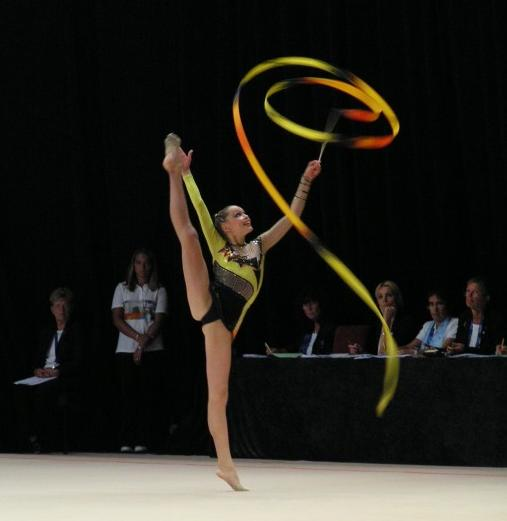 Rhythmic gymnast Dominika Červenková (Czech Republic) performing her ribbon routine during the 2005 World Games in Duisburg. Photo by Miroslav Langer gabriella ferreira ribeiro